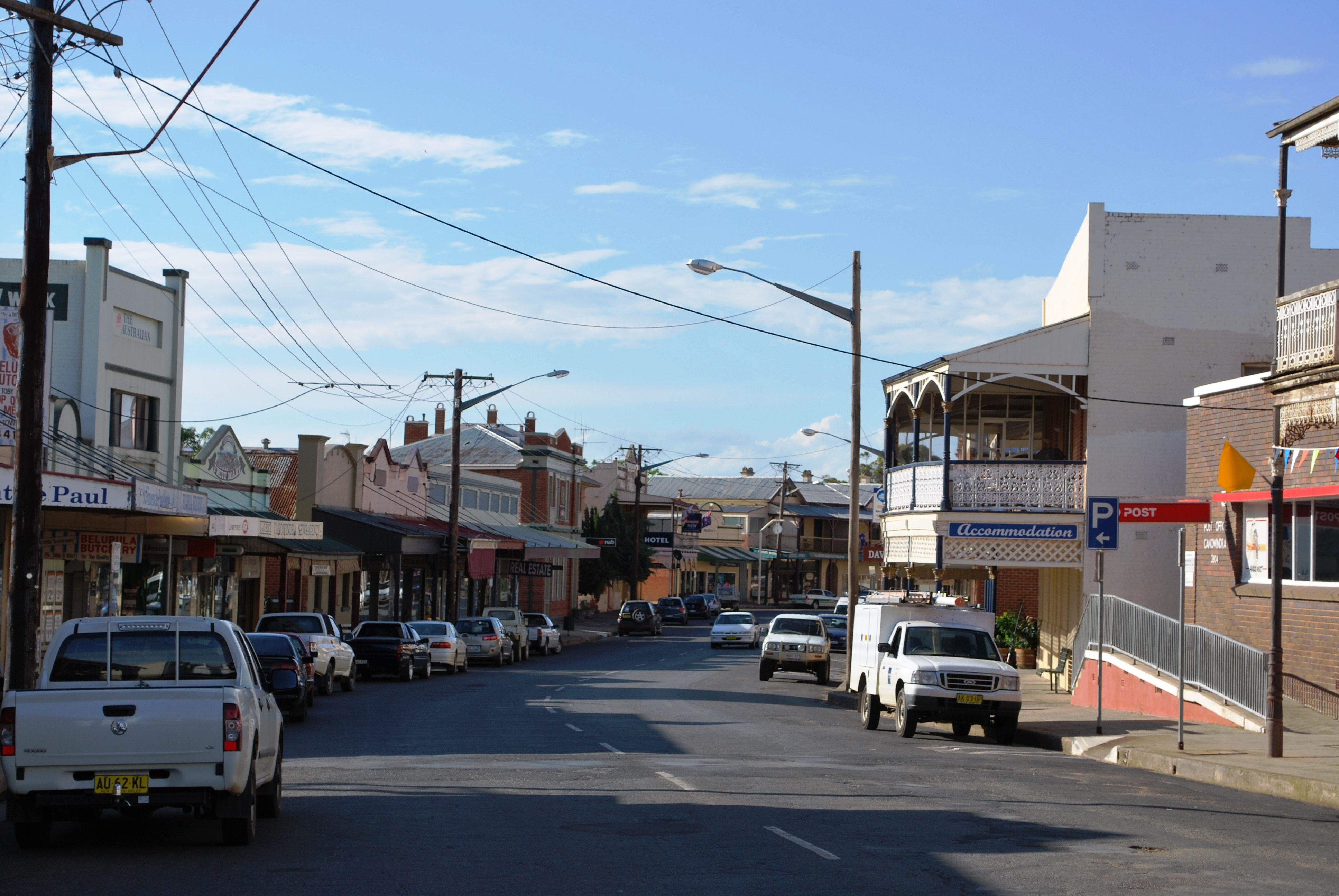 Gaskill St, the main street of Canowindra, New South Wales